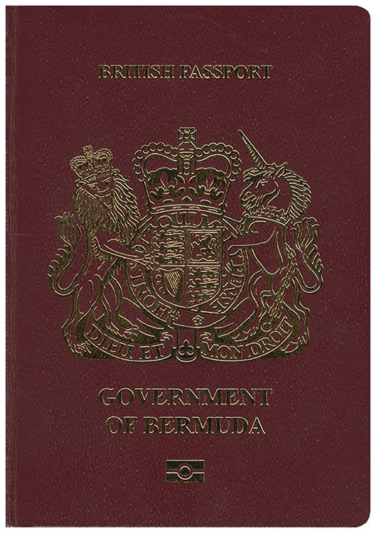 British passport (Government of Bermuda)